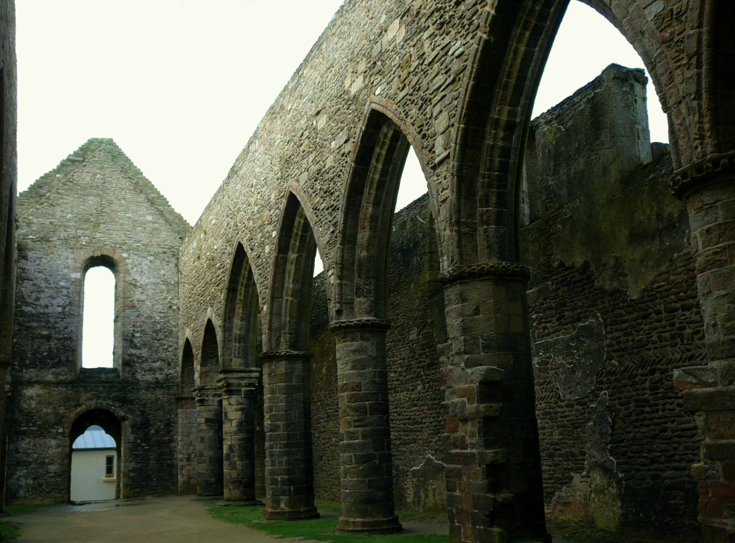 Interior of Abbaye de Saint-Mathieu de Fine-Terre